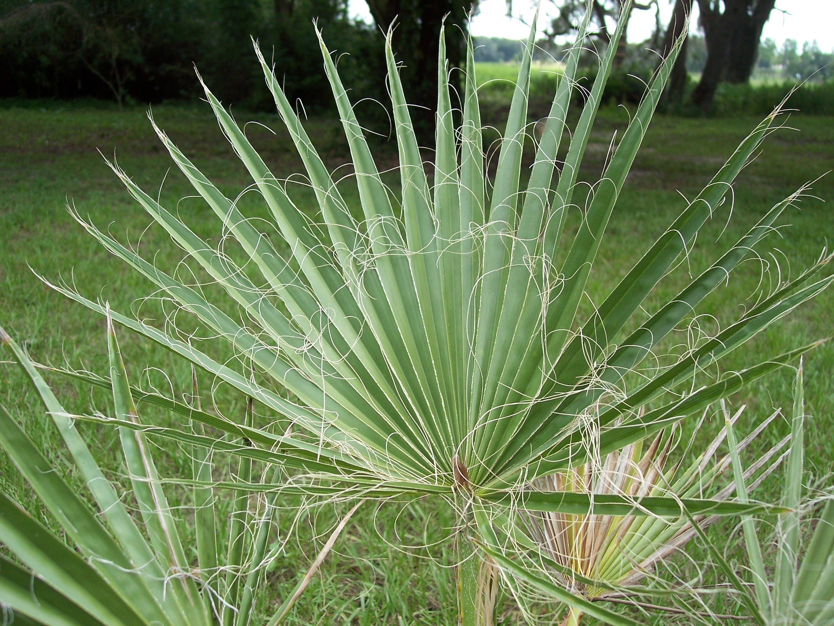 Fibrous threads on leaf segments, especially pronounced in Washingtonia filifera.